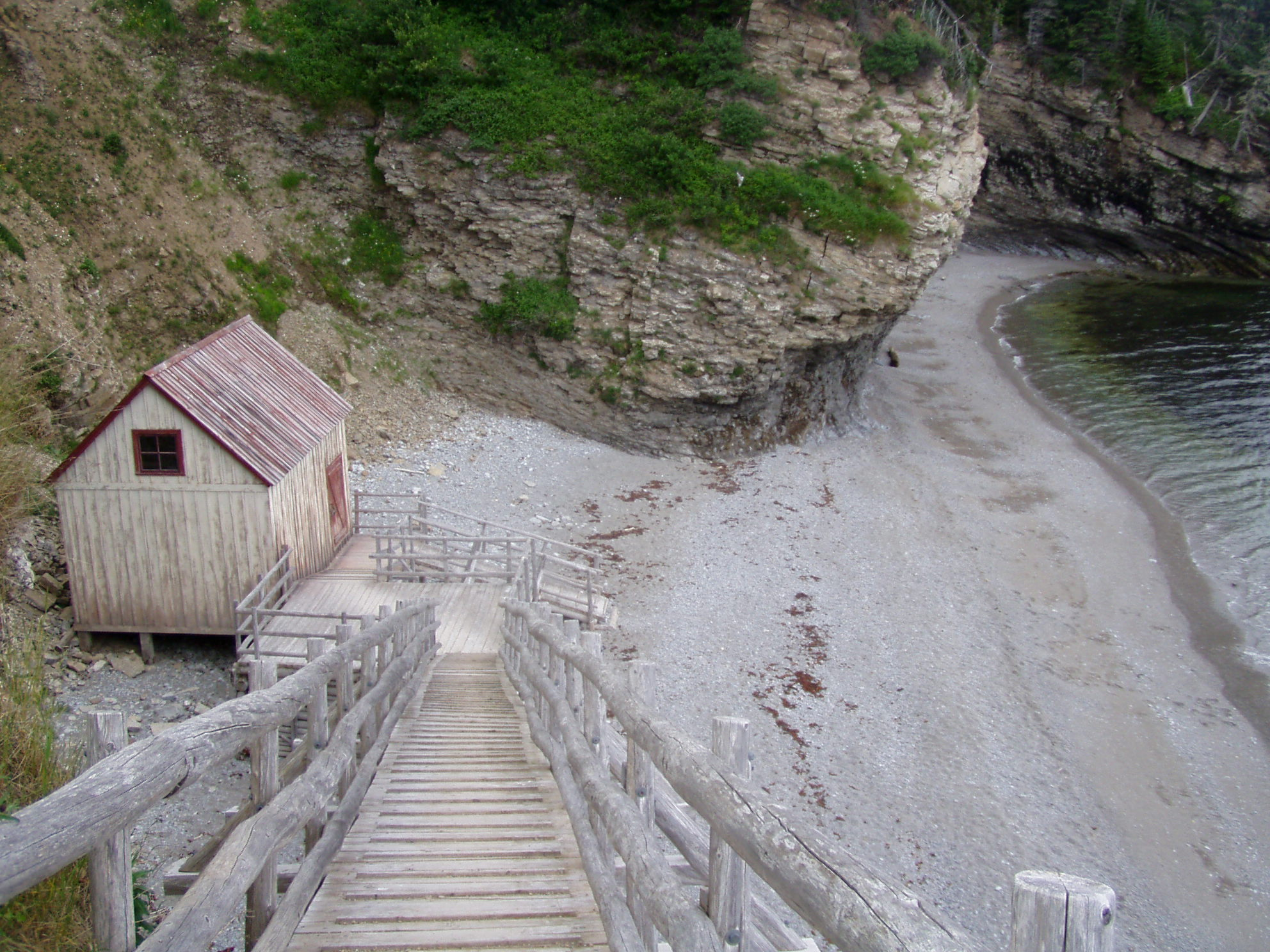 Reproduction of a traditional salt cod fishery installation created for the 1998 TV series, "L'ombre de l'épervier". Photo taken in July 2005 by Danielle Langlois at the Forillon National Park in Quebec, Canada.